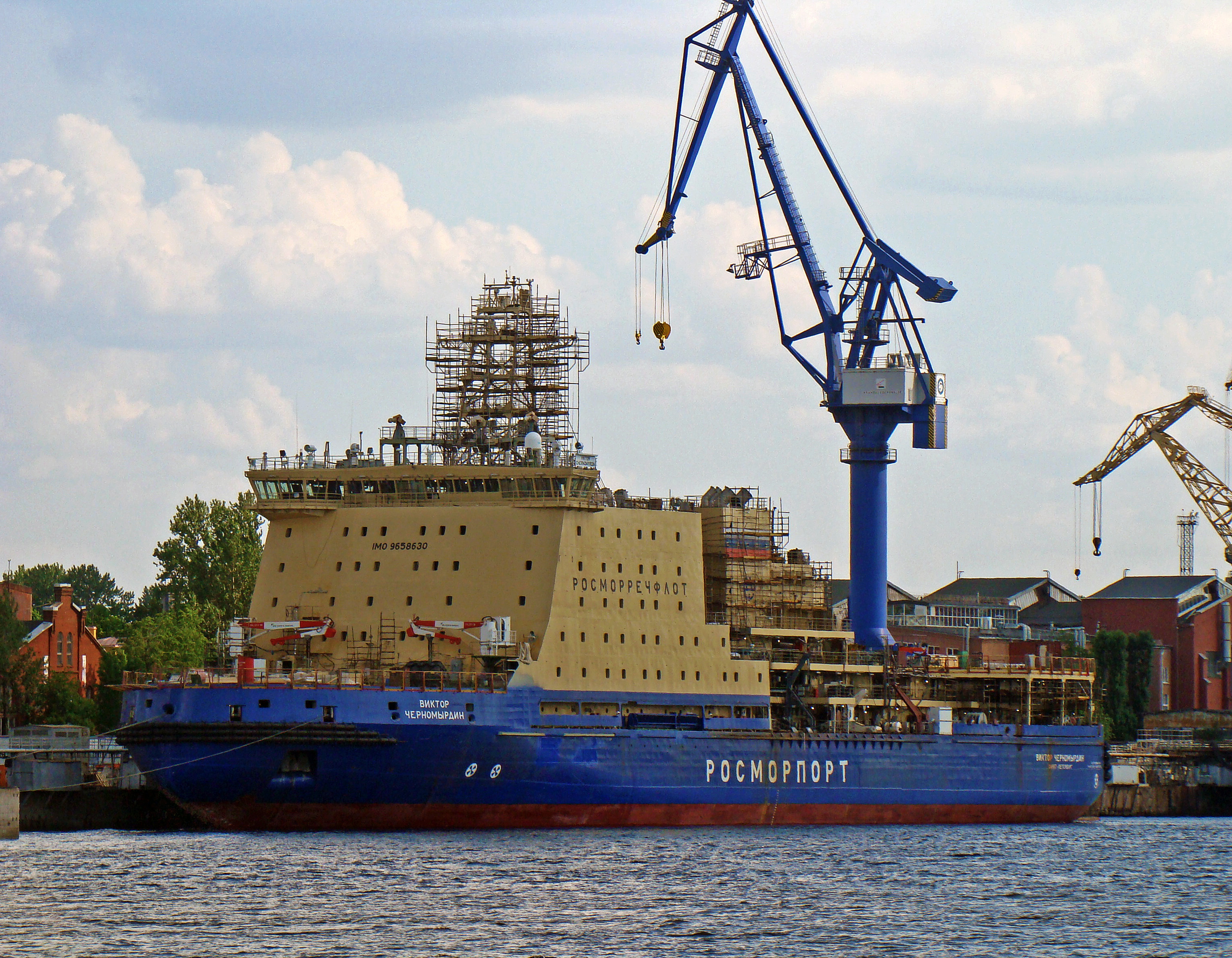 Icebreaker Viktor Chernomyrdin under construction (project 22600). Admiralteyskiye Verfi, Saint Petersburg